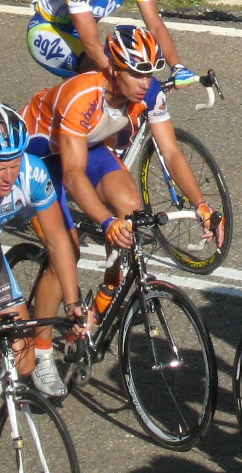 Pedro Horrillo, 2008 Vuelta a España, 8th stage, Port de la Bonaigua, Spain.